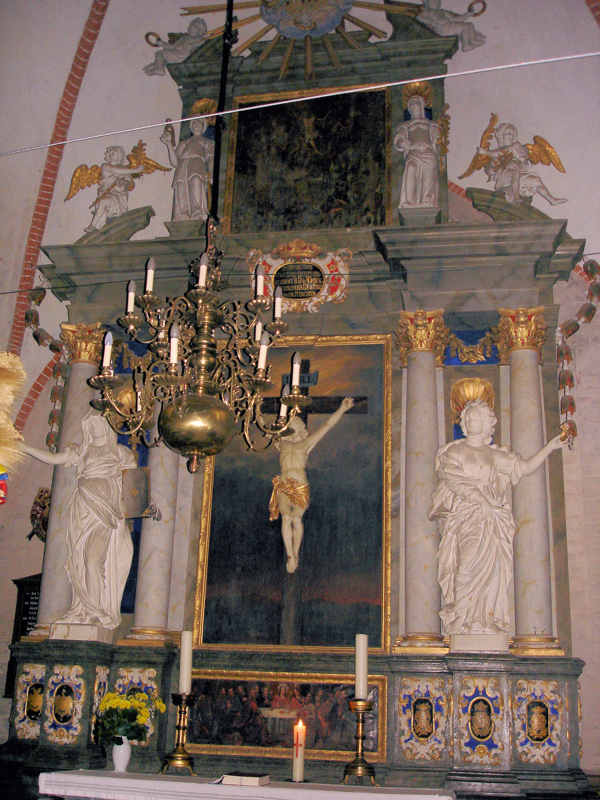 Altar - church in Proseken, Mecklenburg, Germany